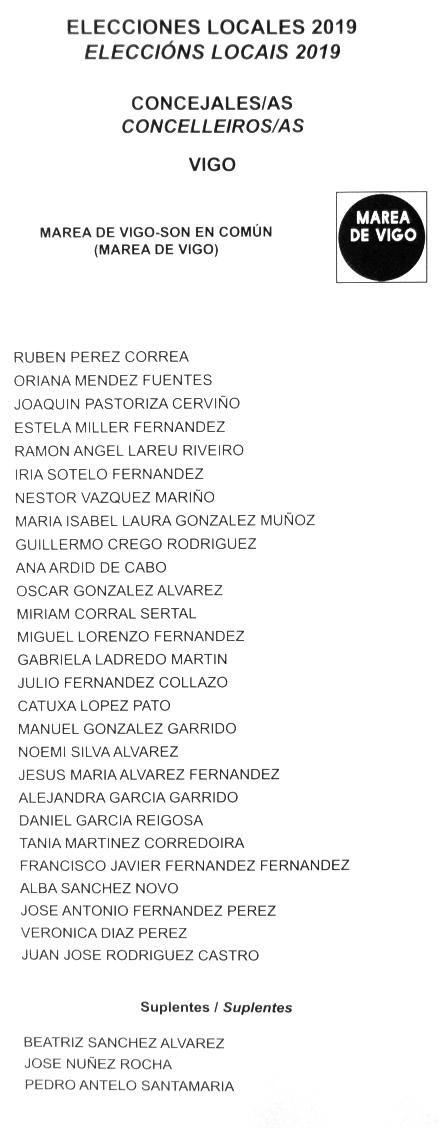 See title.